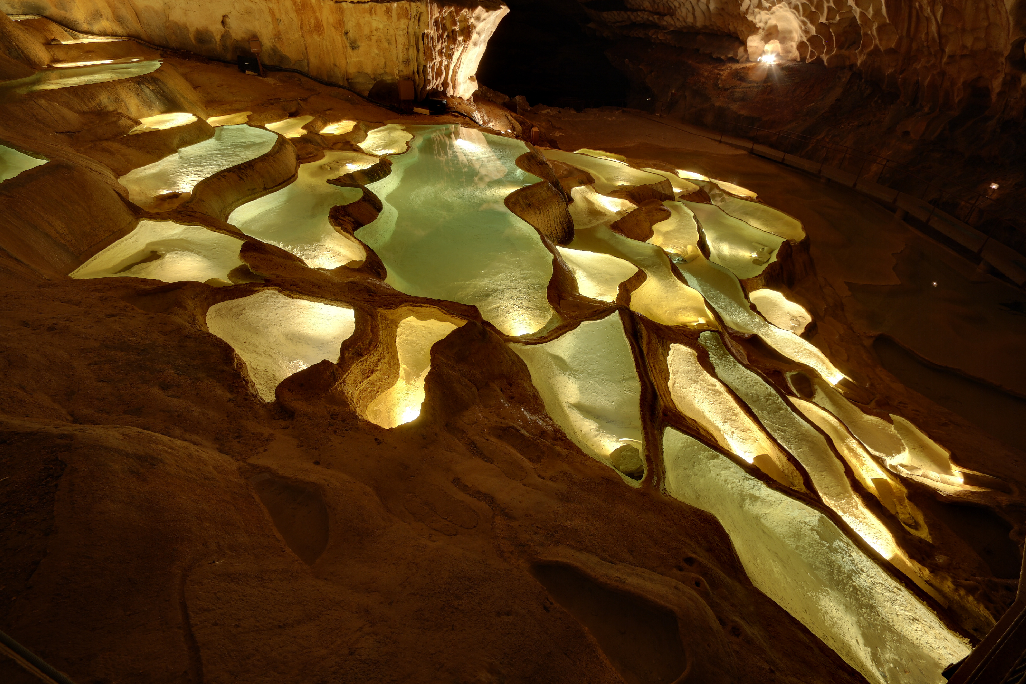 Fountain of basins, in the Saint-Marcel cave, Ardèche, France.